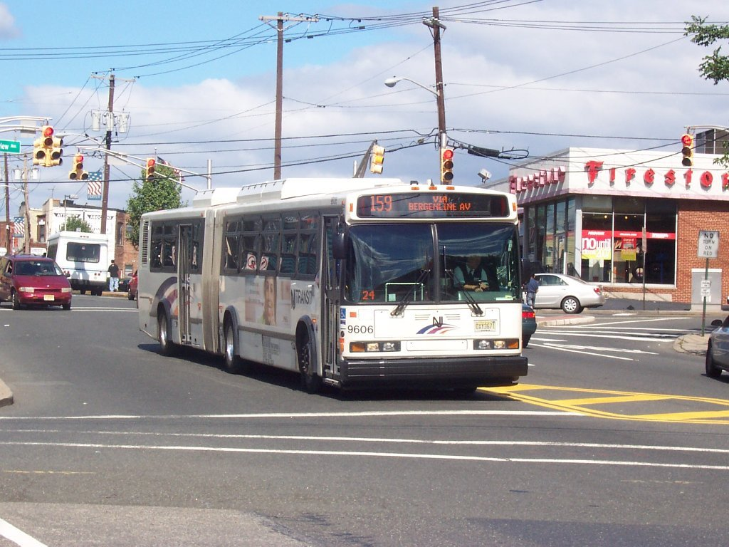 NJ Transit Neoplan AN459 transit #9606 on the 159 in North Bergen, New Jersey